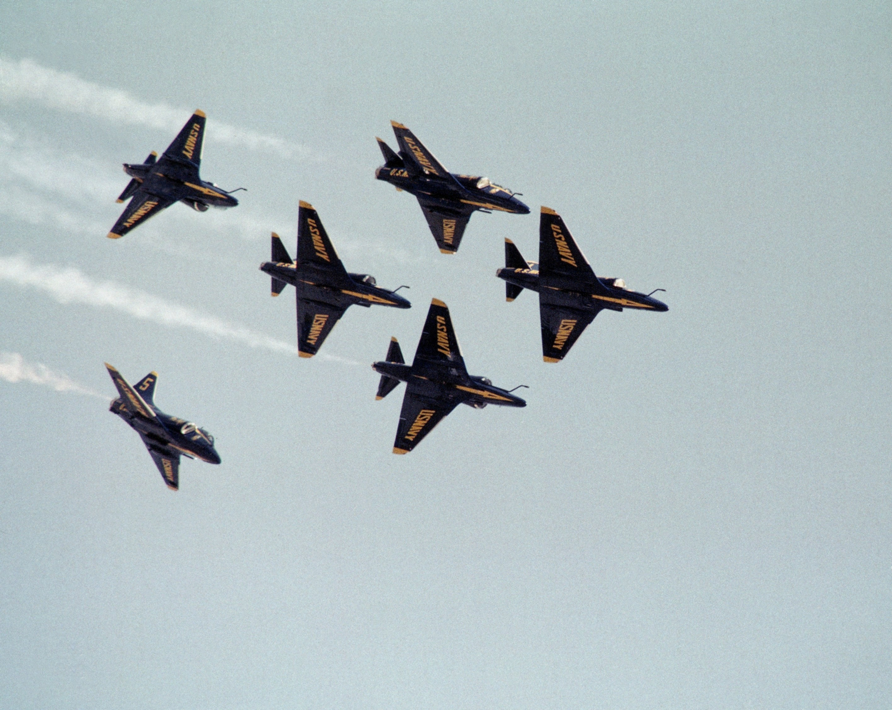 Six U.S. Navy McDonnell Douglas A-4F Skyhawk aircraft assigned to the Blue Angels flight demonstration team in flight in 1984.